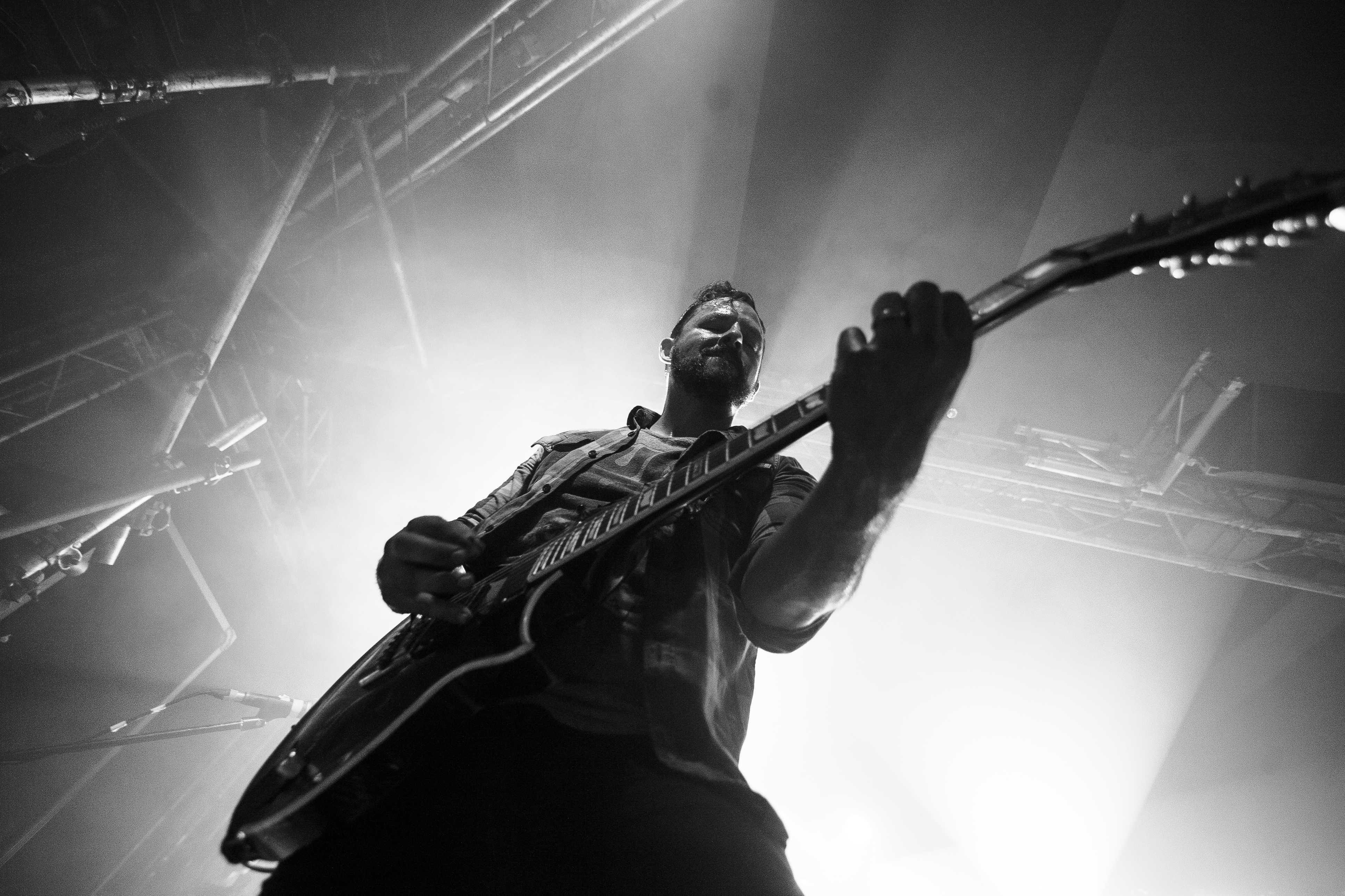 The Dillinger Escape Plan during their final tour in Europe. Last ever show in Europe, Leipzig, Germany 2017.